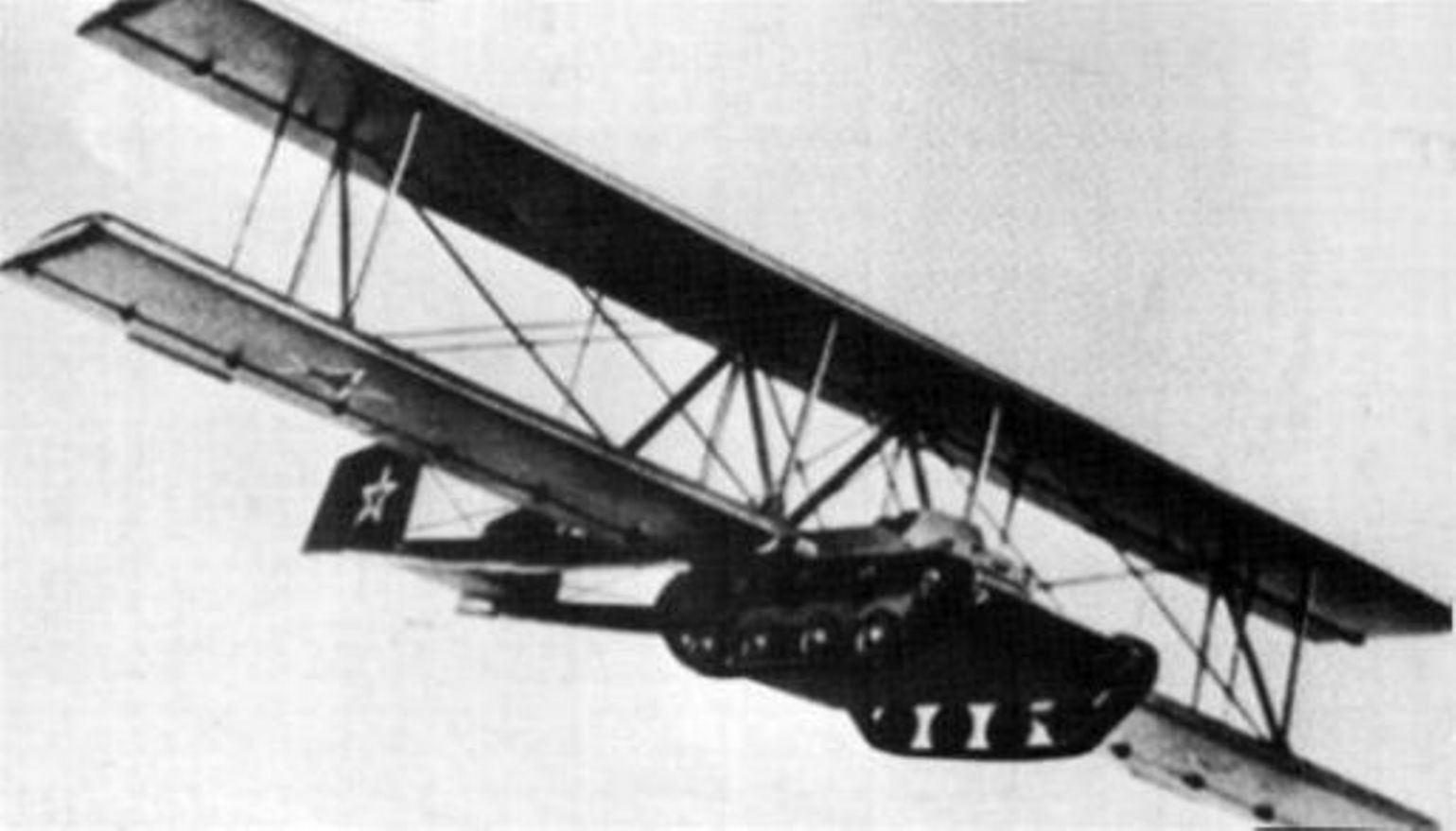 Old Soviet Photo of 1940ies made by Soviet Tupolev plant employees. The only known photo of the Antonov A-40. Source URL: (archive link) See also Image:Mark BT.jpg